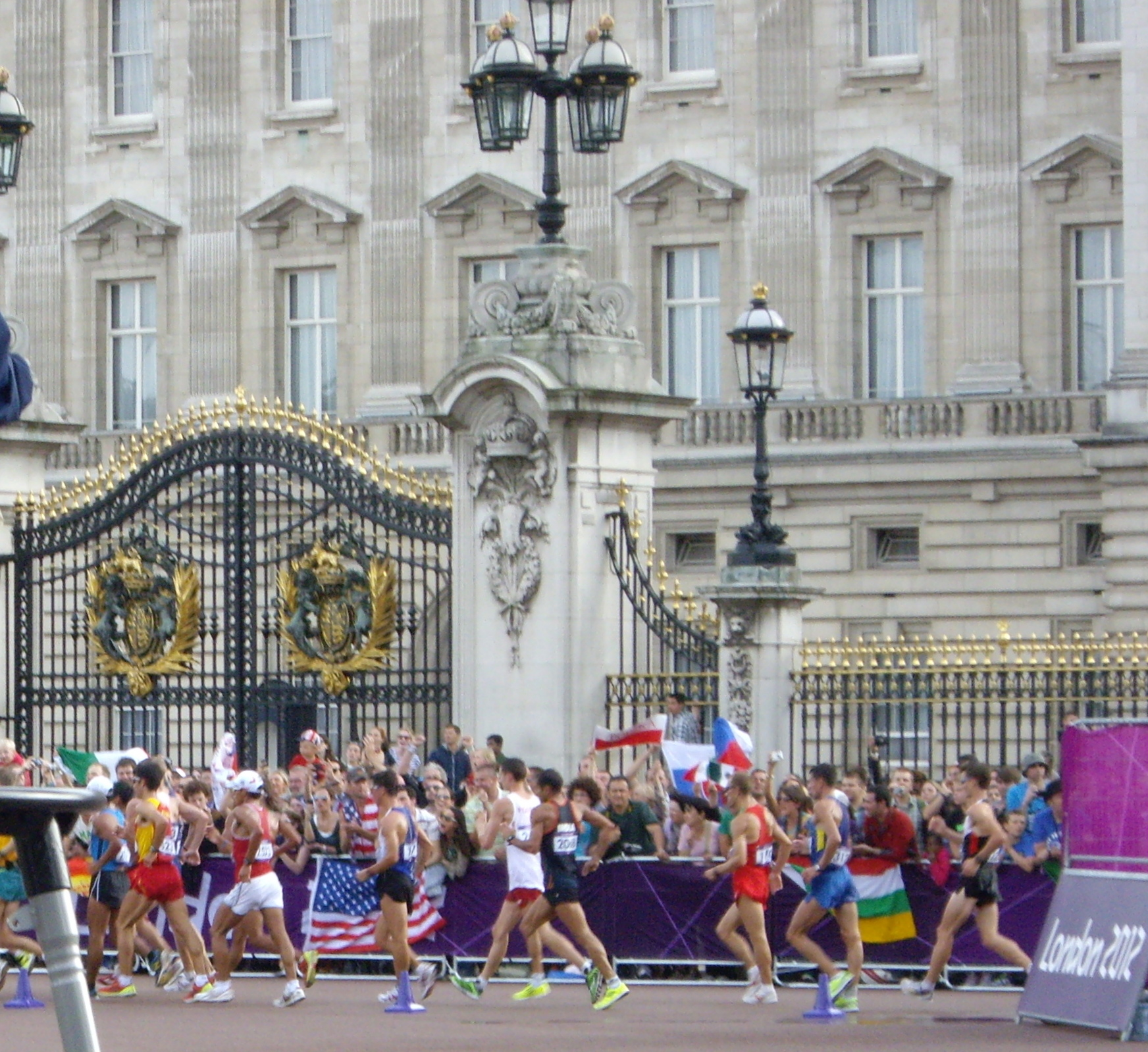 Competitors in the 2012 Olympic men's 20km walk pass in front of Buckingham Palace